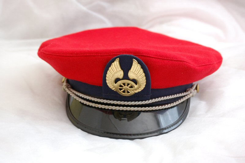 Finnish train dispatcher's hat.